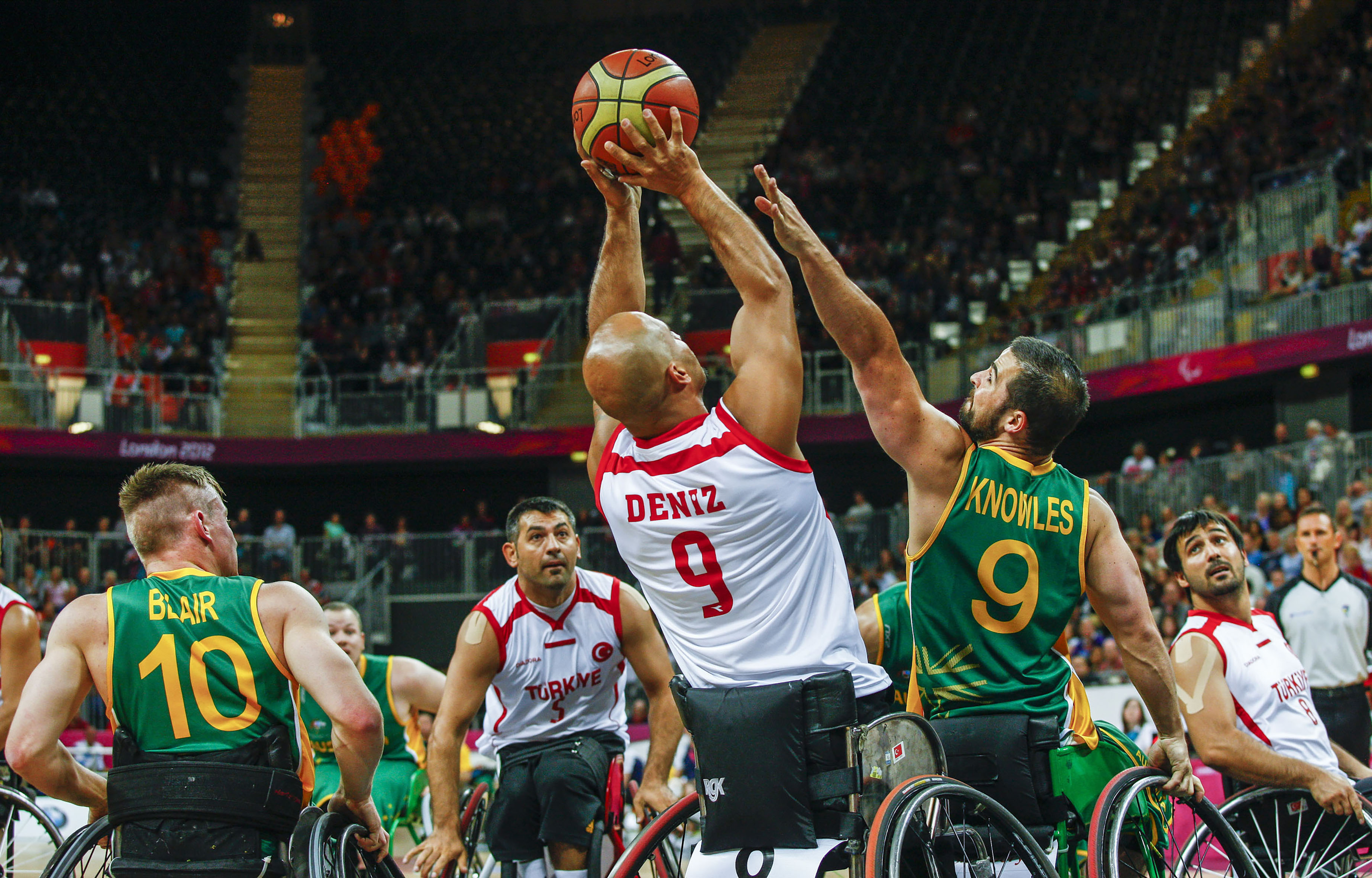 Photograph of Australian Paralympic team member Tristan Knowles at the 2012 Summer Paralympic Games in London